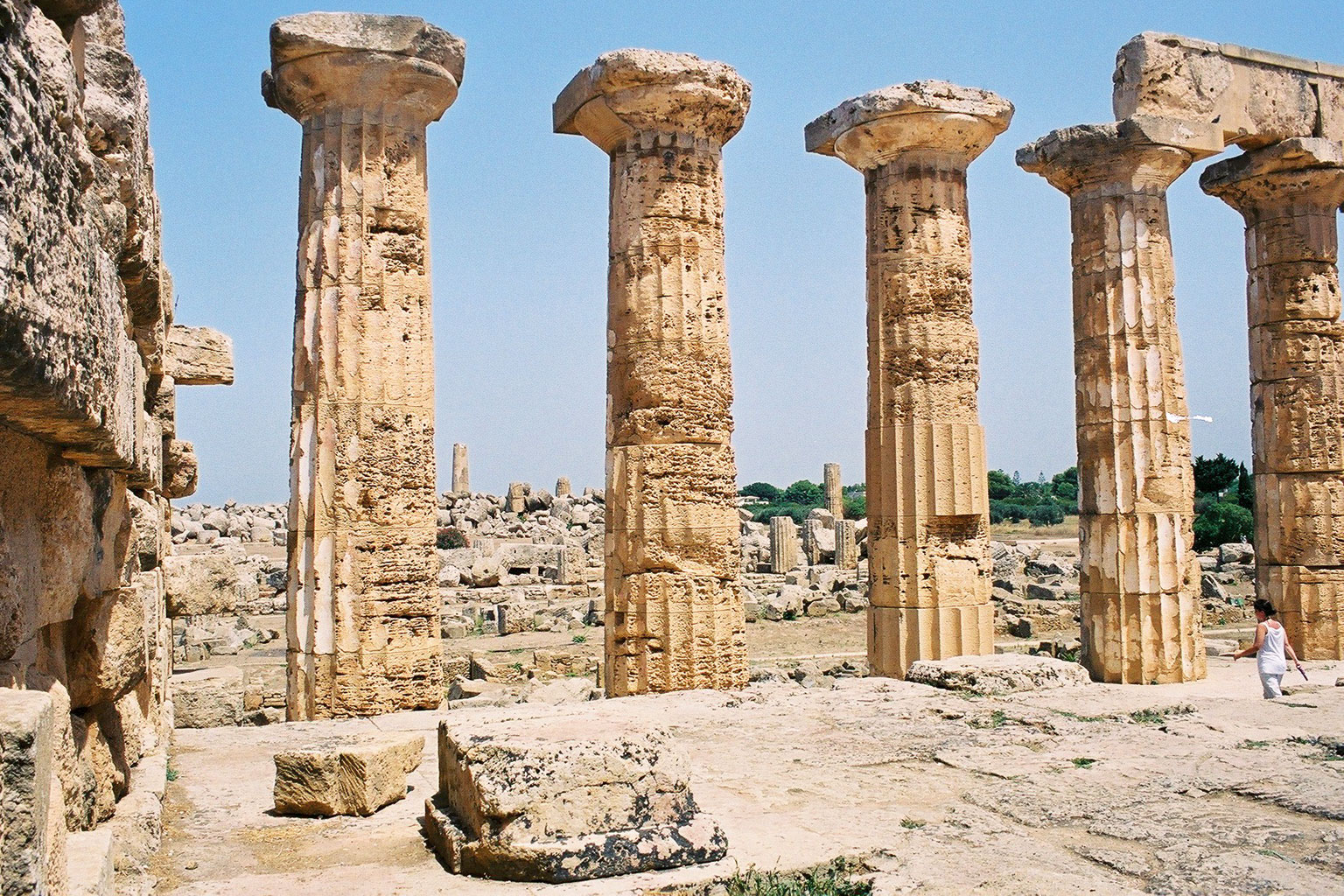 Selinunte (Sicily): Temple E